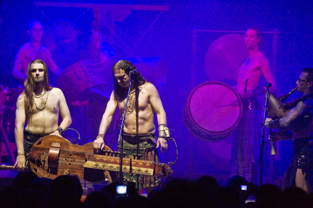 German musical group Corvus Corax perfroming at Warszawa Cross Culture Festival in September 2011.